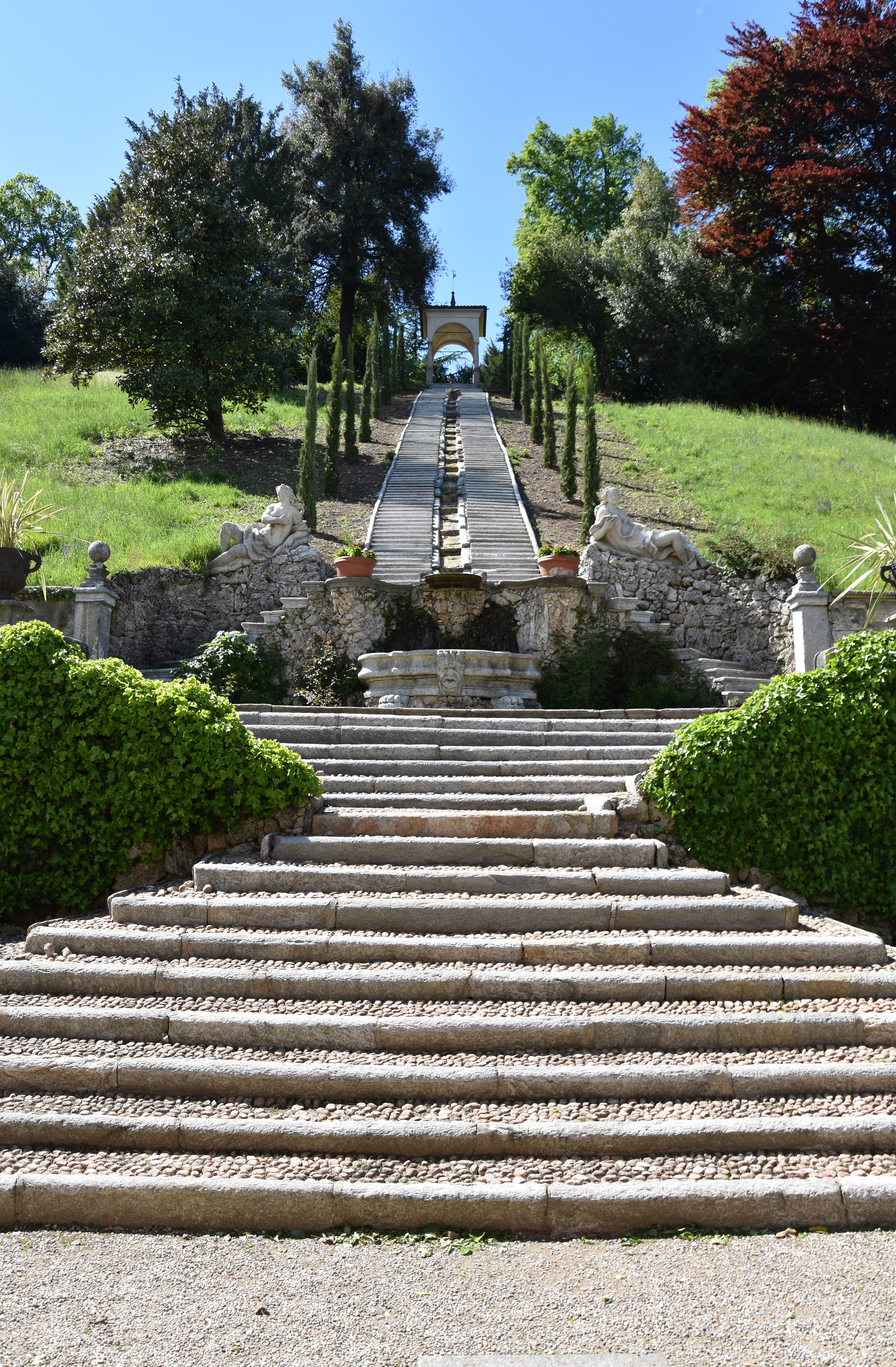 Villa Cicogna Mozzoni in Bisuschio, Italy.